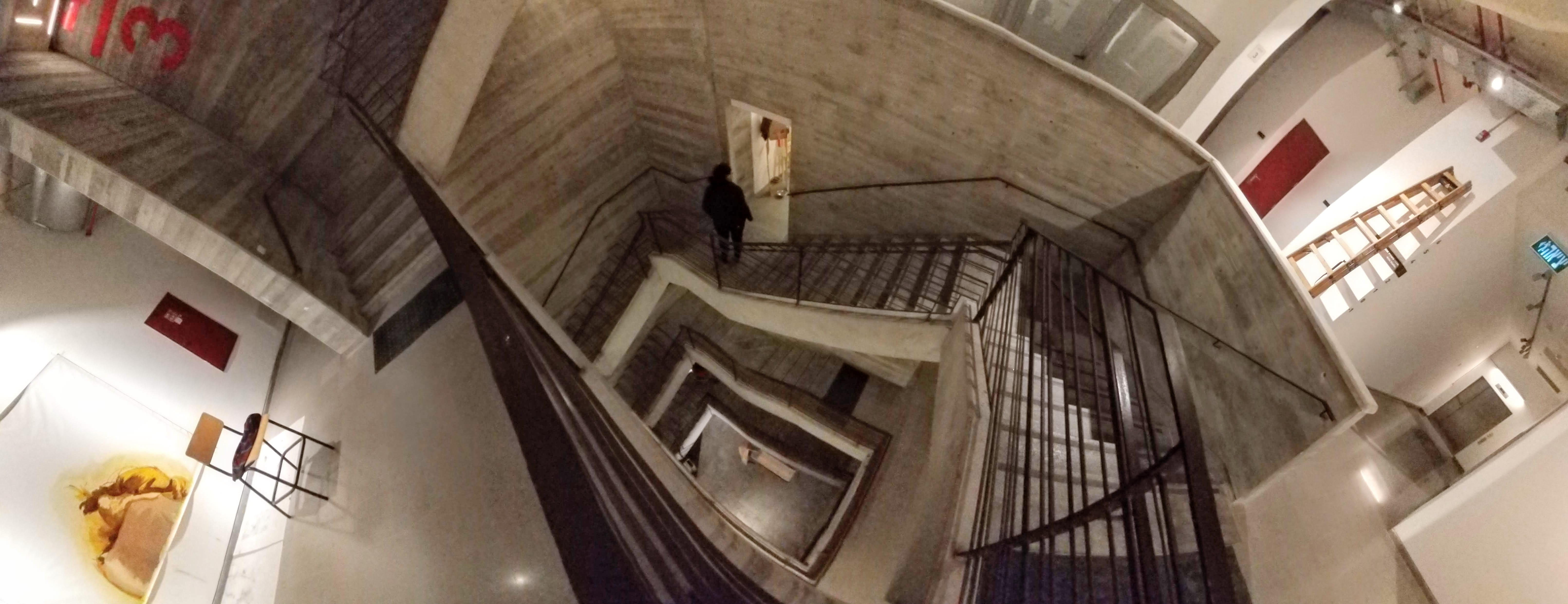 The stairwell of the Basis Art School in Herzliya, Israel - panoramic photograph from the 3rd floor